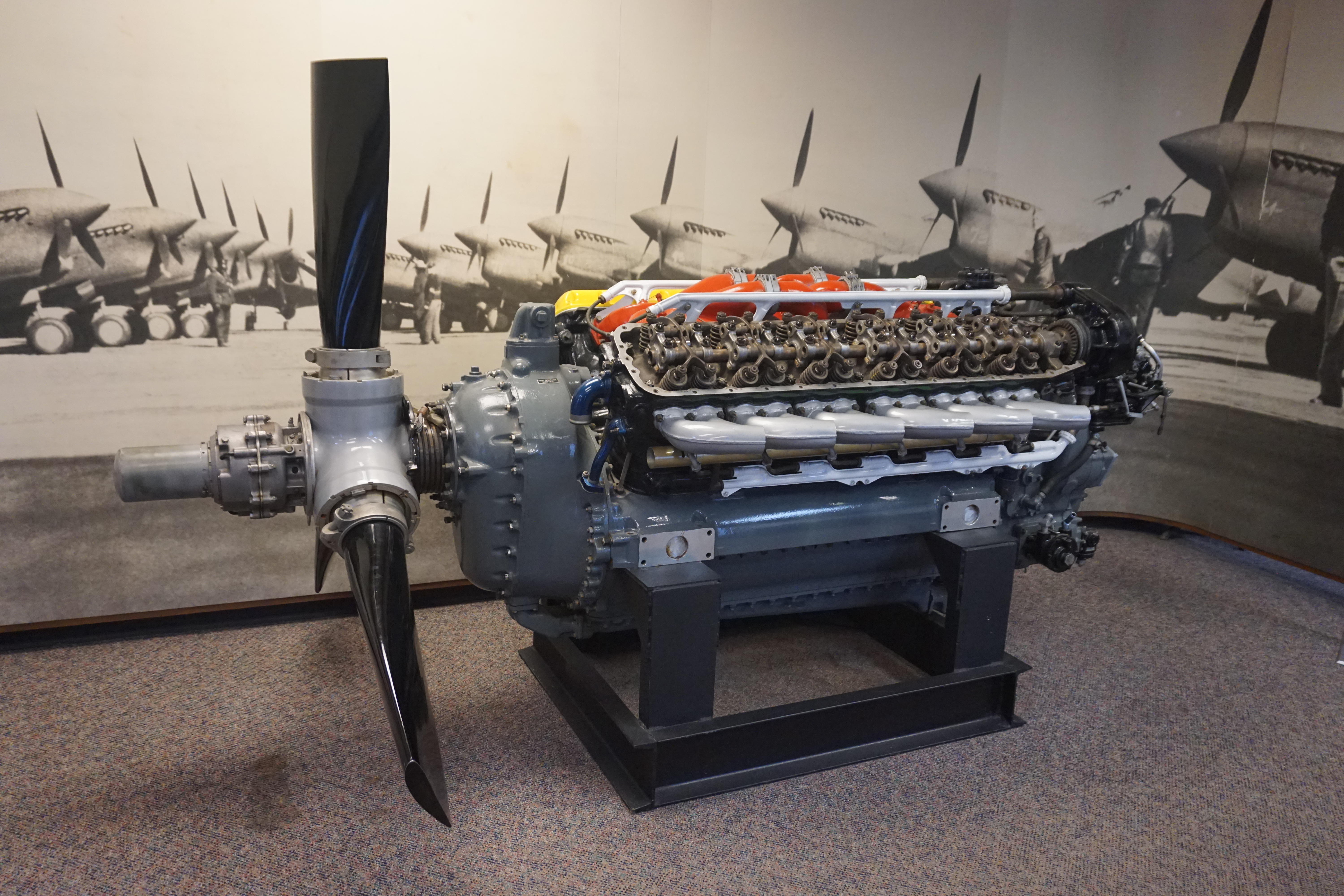 An Allison V-1710 on display at the Air Zoo at Kalamazoo/Battle Creek International Airport in Portage, Michigan (United States).